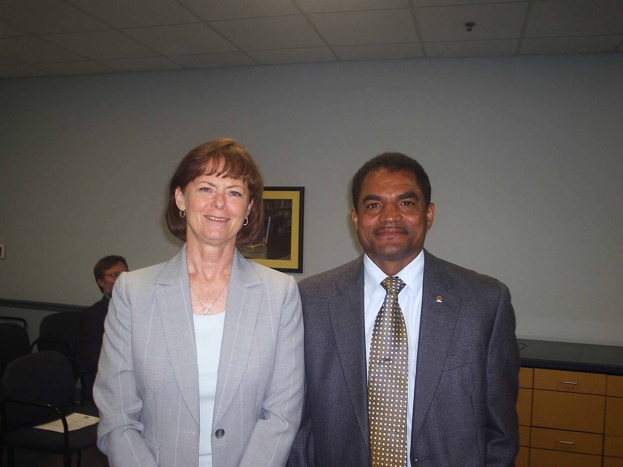 Made by me at Largo, Florida City Hall. Shows the Honorables Mayor Pat Gerard and Commissioner Rodney Woods. Mayor Gerard is Largo's first woman mayor. Commssioner Woods is Largo's first commssioner of African-American ancestry. Both gave permission for me to take this picture and place it on Wikipedia under a cc-by-sa-2.5 license. It will be used in Largo, Florida and Timeline_of_Largo_history.User:Mikereichold | User_talk:Mikereichold 19:11, 24 May 2006 (UTC)